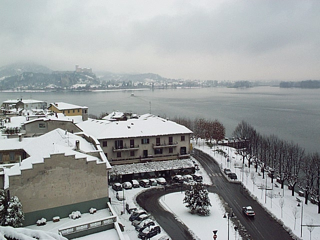 Image of Arona, Italy in winter. This is known as Largo Garibaldi. The castle in the background, on the other side of Lake Maggiore, is Angera's castle.